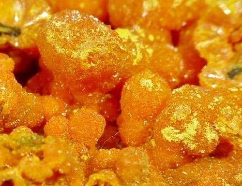 Francevillite, Curienite Locality: Mounana Mine (Mouana Mine), Franceville, Haut-Ogooué Province, Gabon (Locality at ) Size: 7.7 x 6.4 x 3.7 cm. A solid, rich specimen that is almost entirely covered on the display face with beautiful orange Francevillite accented by yellow curienite. TYPE LOCALITY for both species. Tim Blackwood Collection.